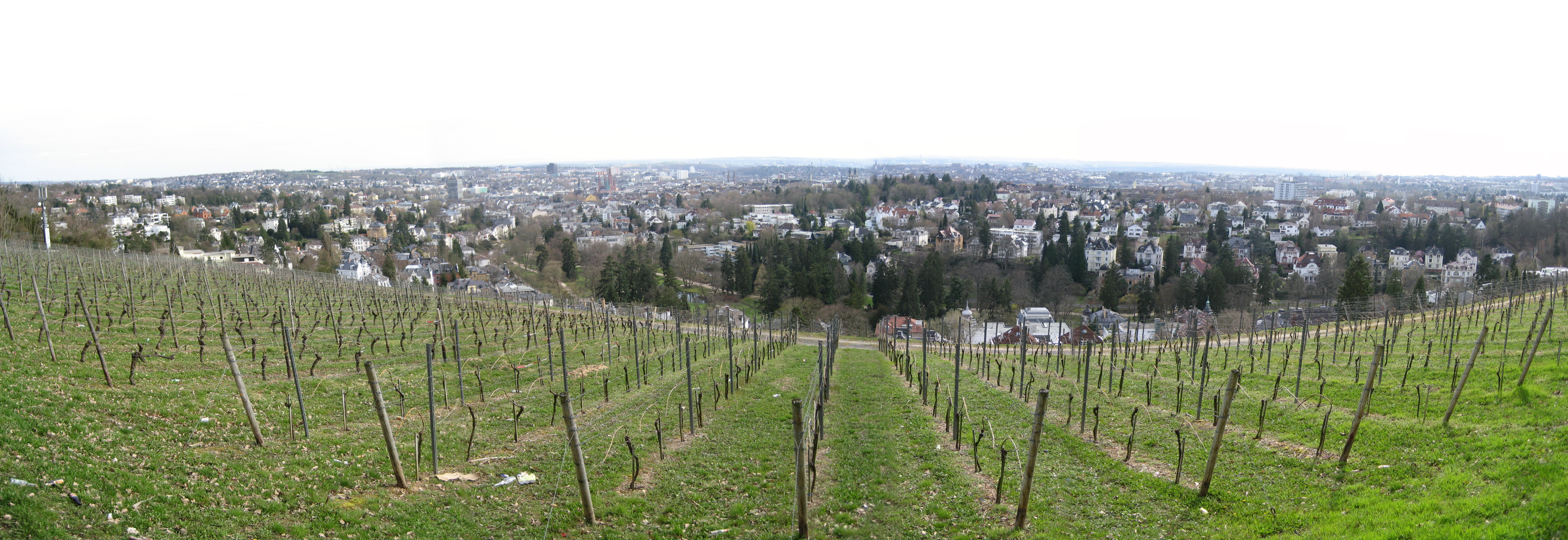 Wiesbaden wine Neroberg panorama